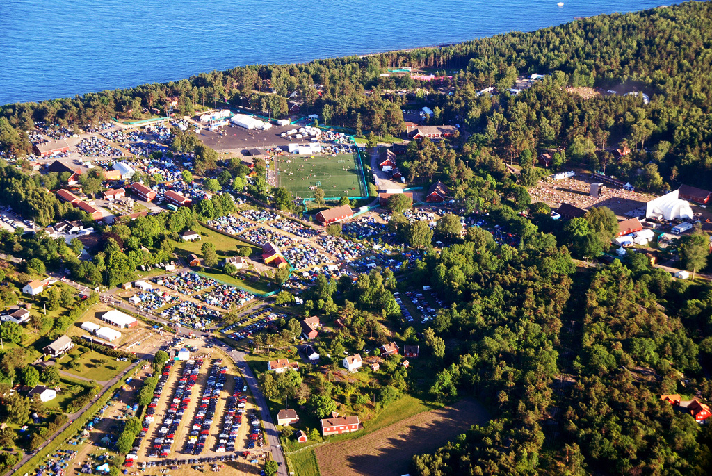 Overview of Hove festival in Norway